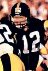 Pittsburgh Steelers quarterback Terry Bradshaw hands the ball off to fullback Franco Harris against the Los Angeles Rams in Super Bowl XIV.